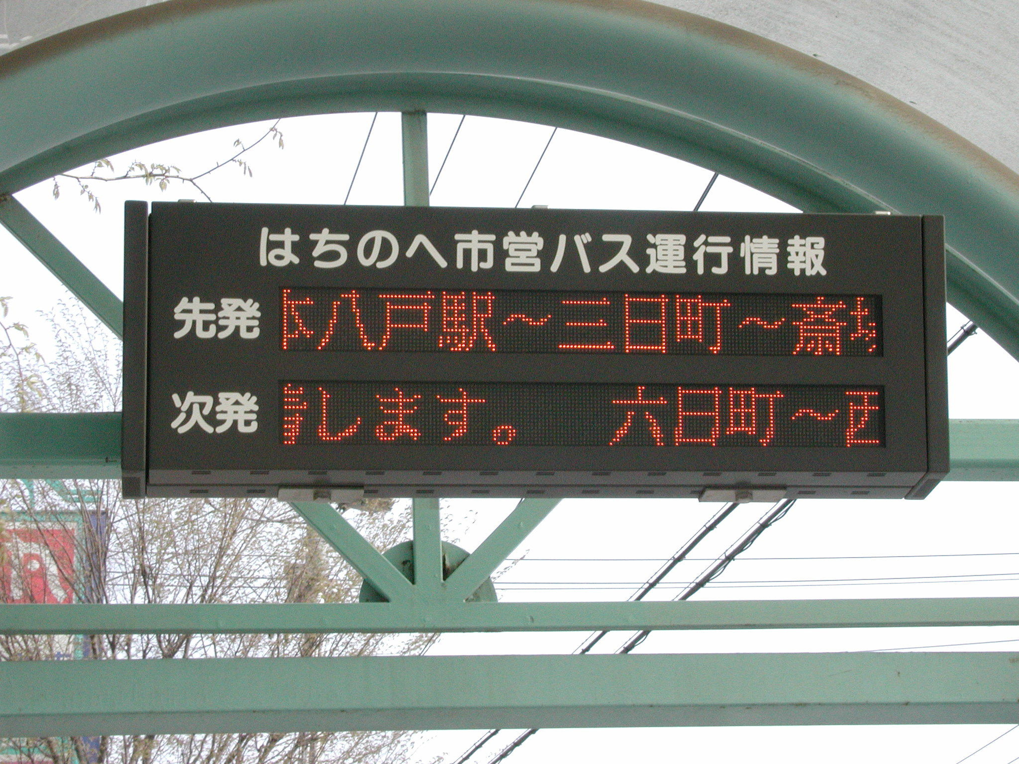 LED information display installed at Hachinohe City Bus Lapia Bus Stop